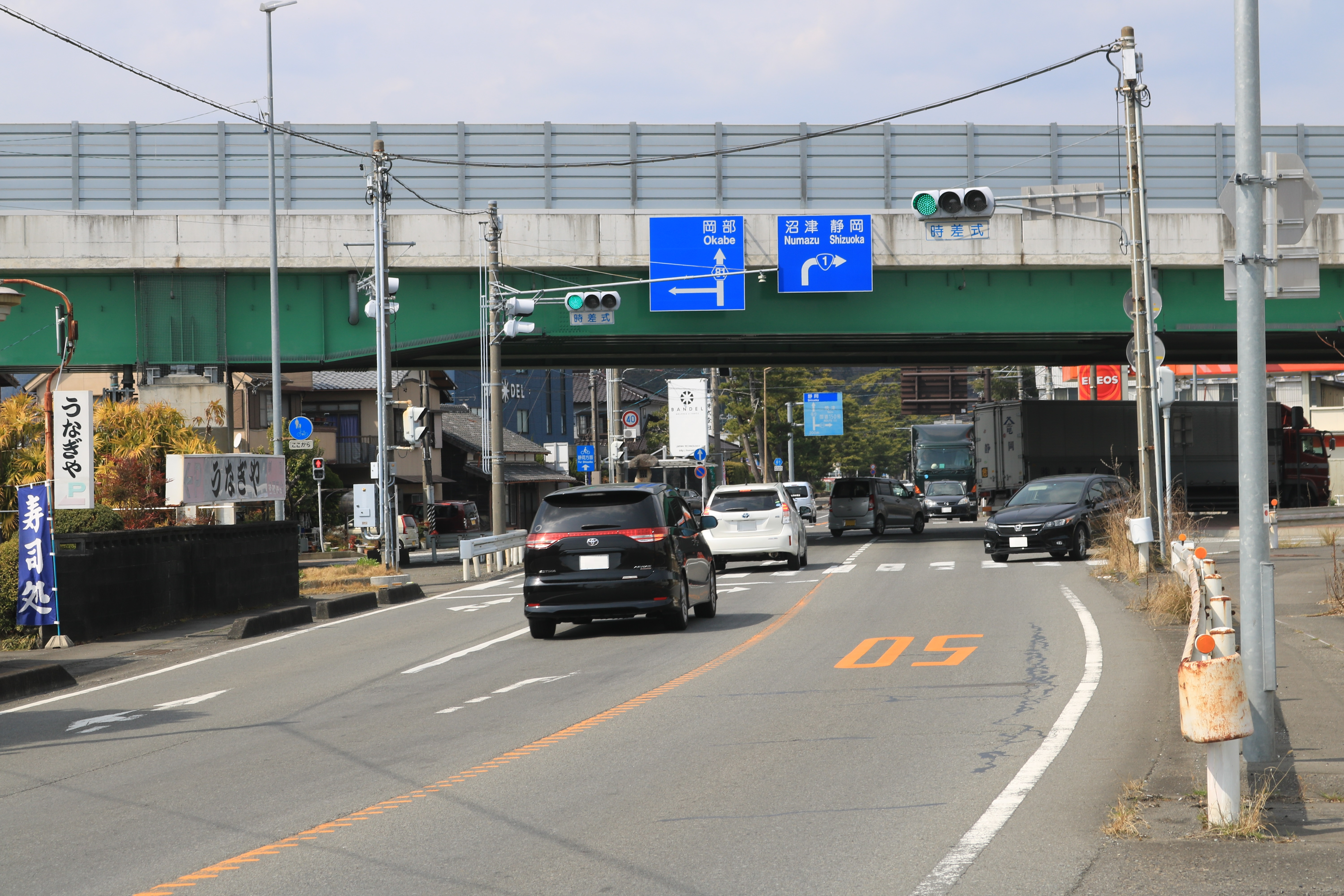 Shizuoka Prefectural Road Route 81, Shizuoka Prefectural Road Route 381 and Route 1 in Utsutani, Okabe-cho, Fujieda, Shizuoka prefecture, Japan.